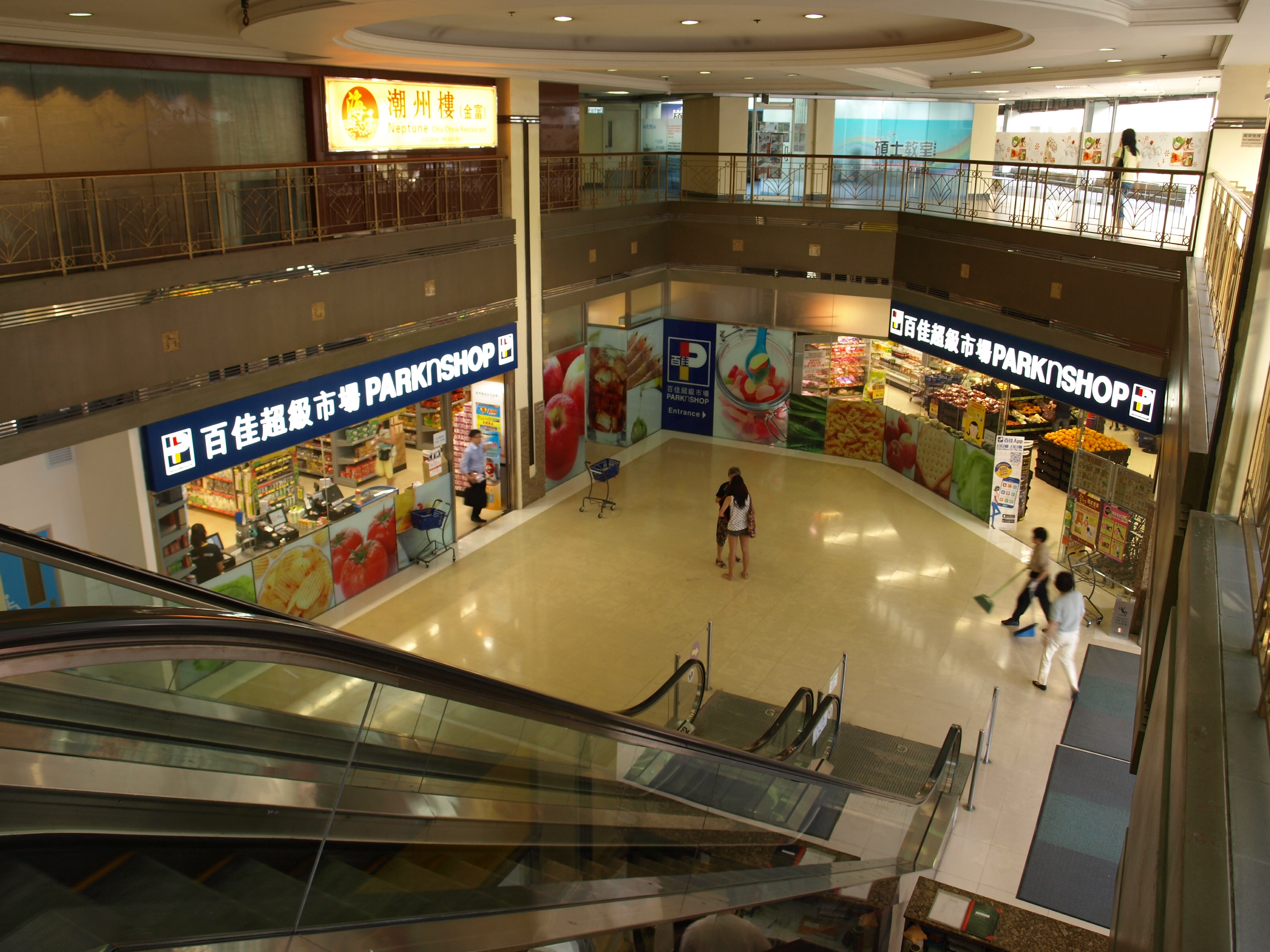 Waterside Plaza Shopping Mall Courtyard (Phase 2) 中文（香港）: 海灣花園購物商場中庭 (第二期)